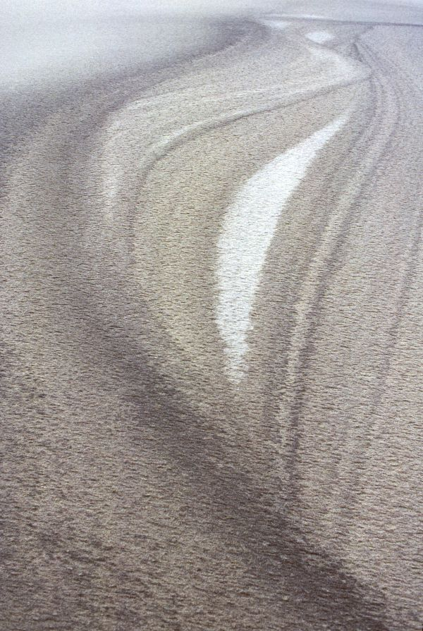 Patterns visible in the Eureka Dunes, California, after a rain storm.